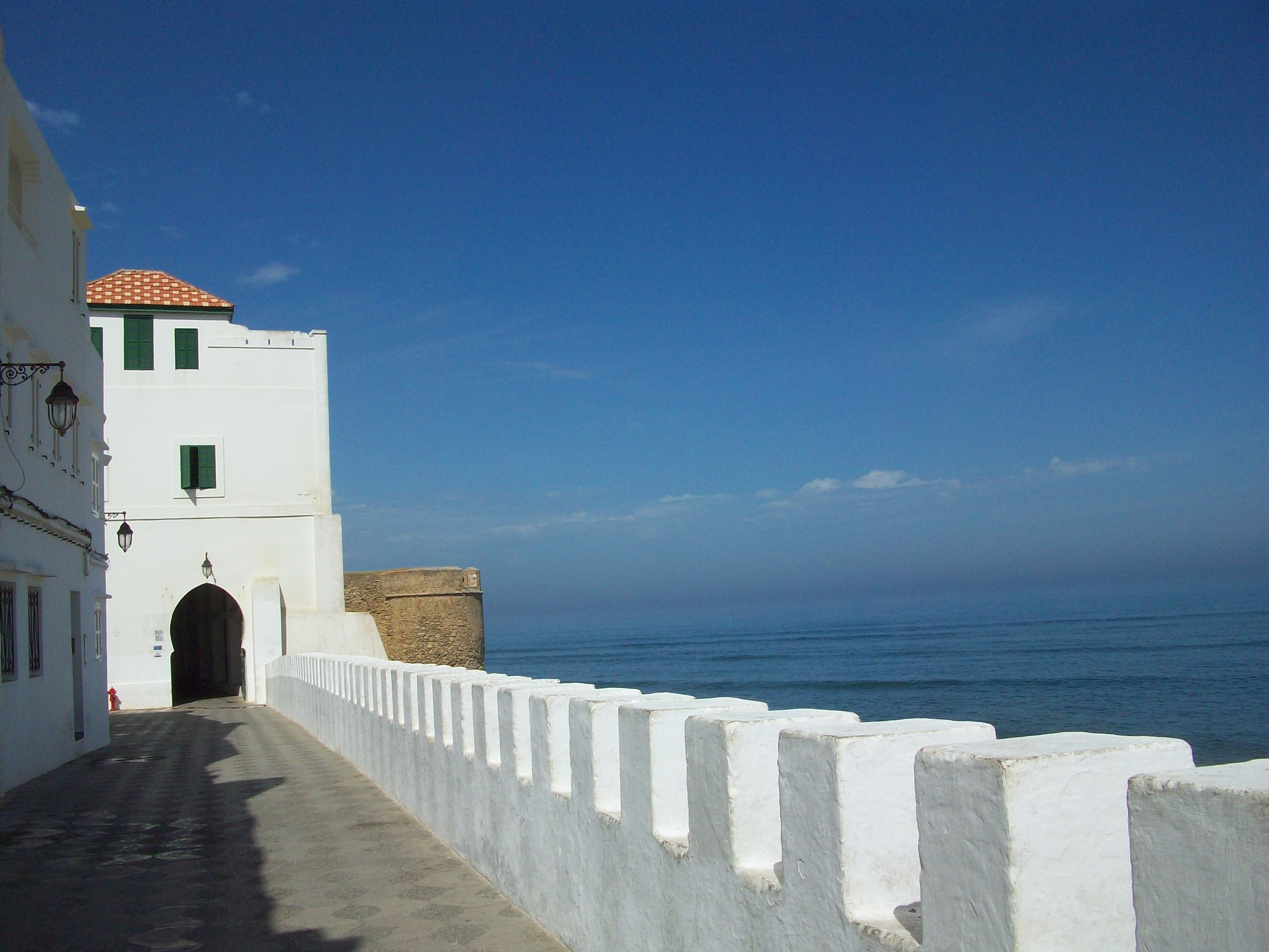 Assilah, Morocco